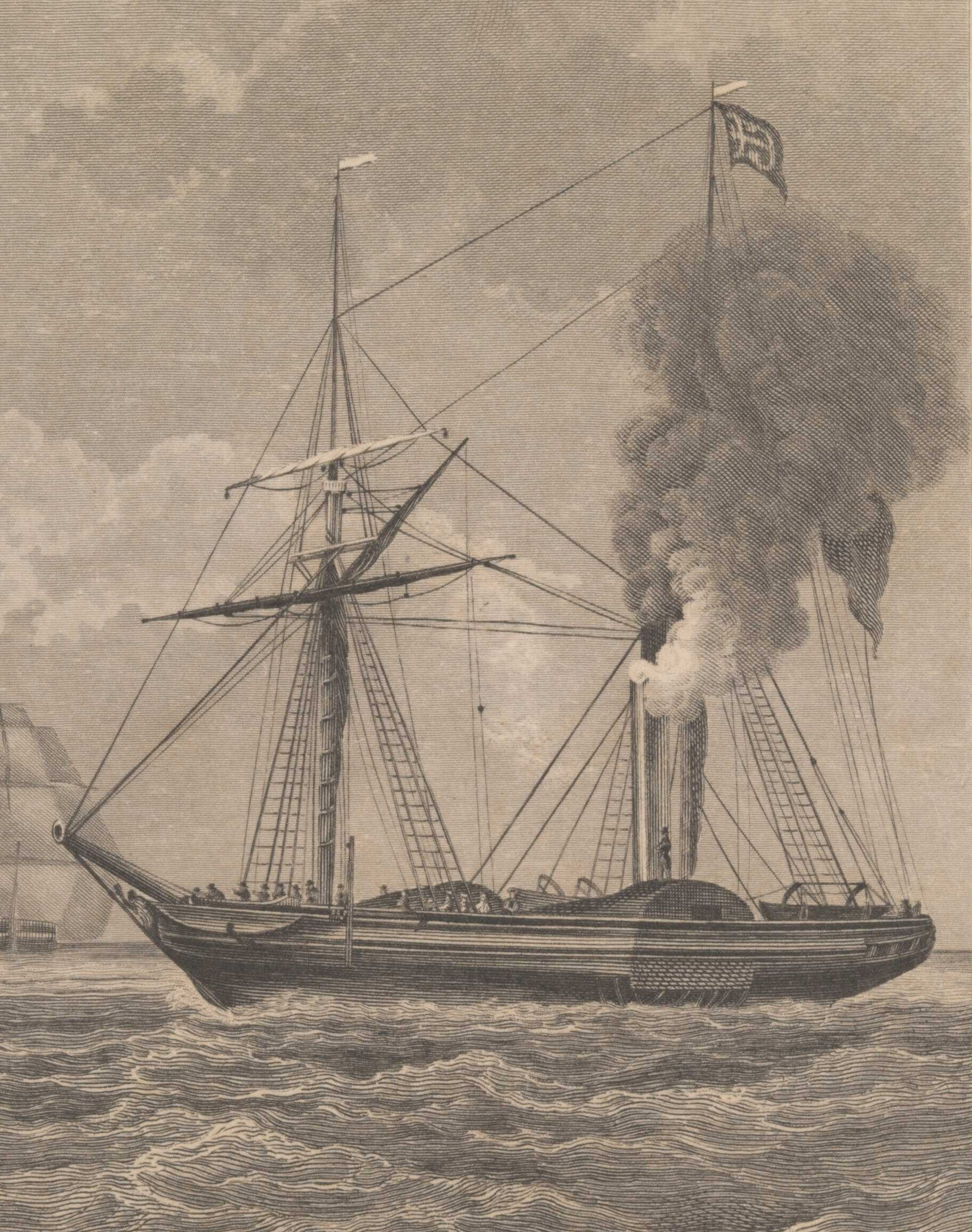 The Water Witch (ship, 1832)